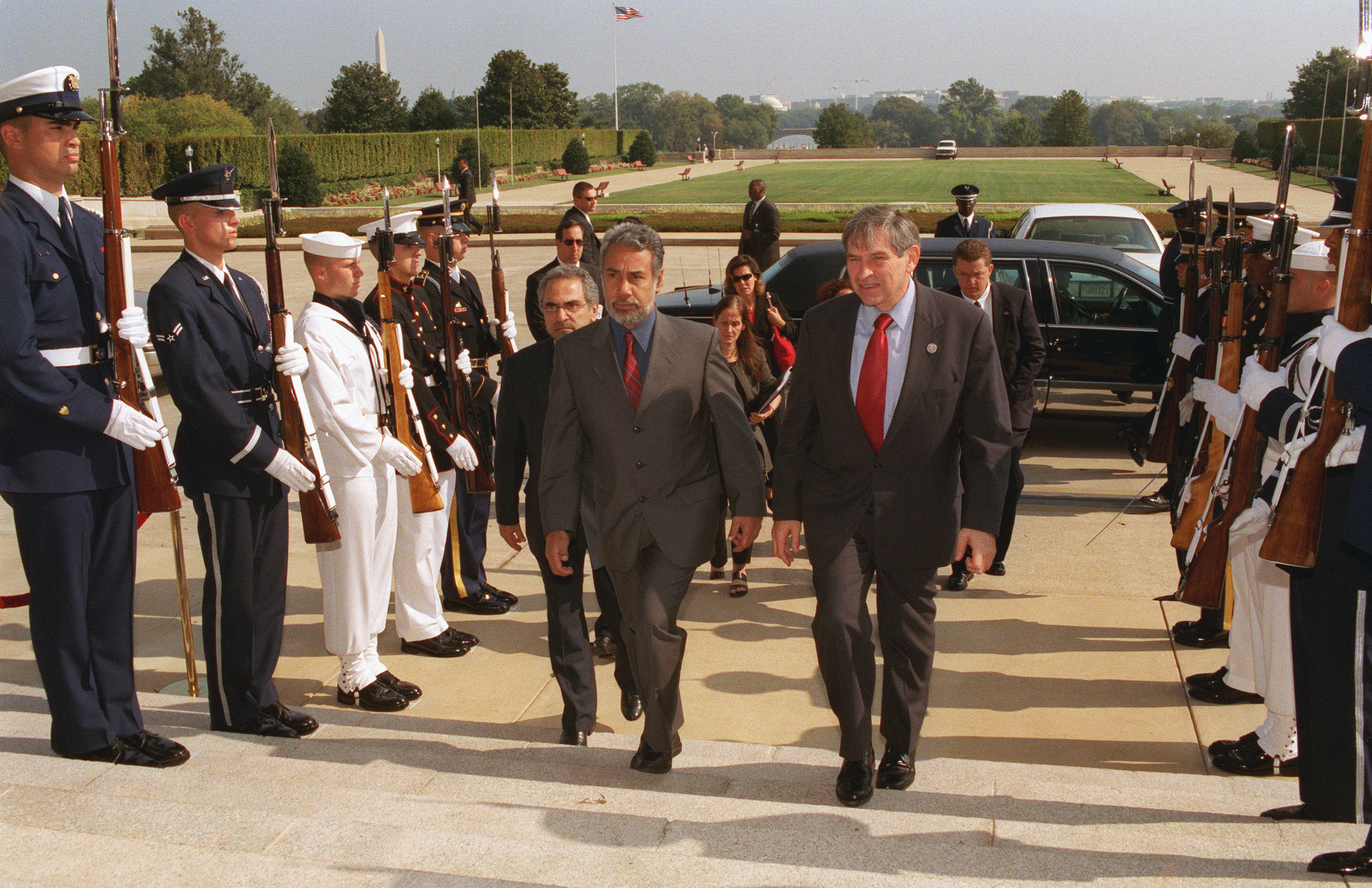 President Jose Alexander Gusmao (left), of East Timor, arrives at the Pentagon on Oct. 2, 2002, for a meeting with Deputy Secretary of Defense Paul Wolfowitz (right). The two men and their staffs will meet to discuss a range of regional security issues.